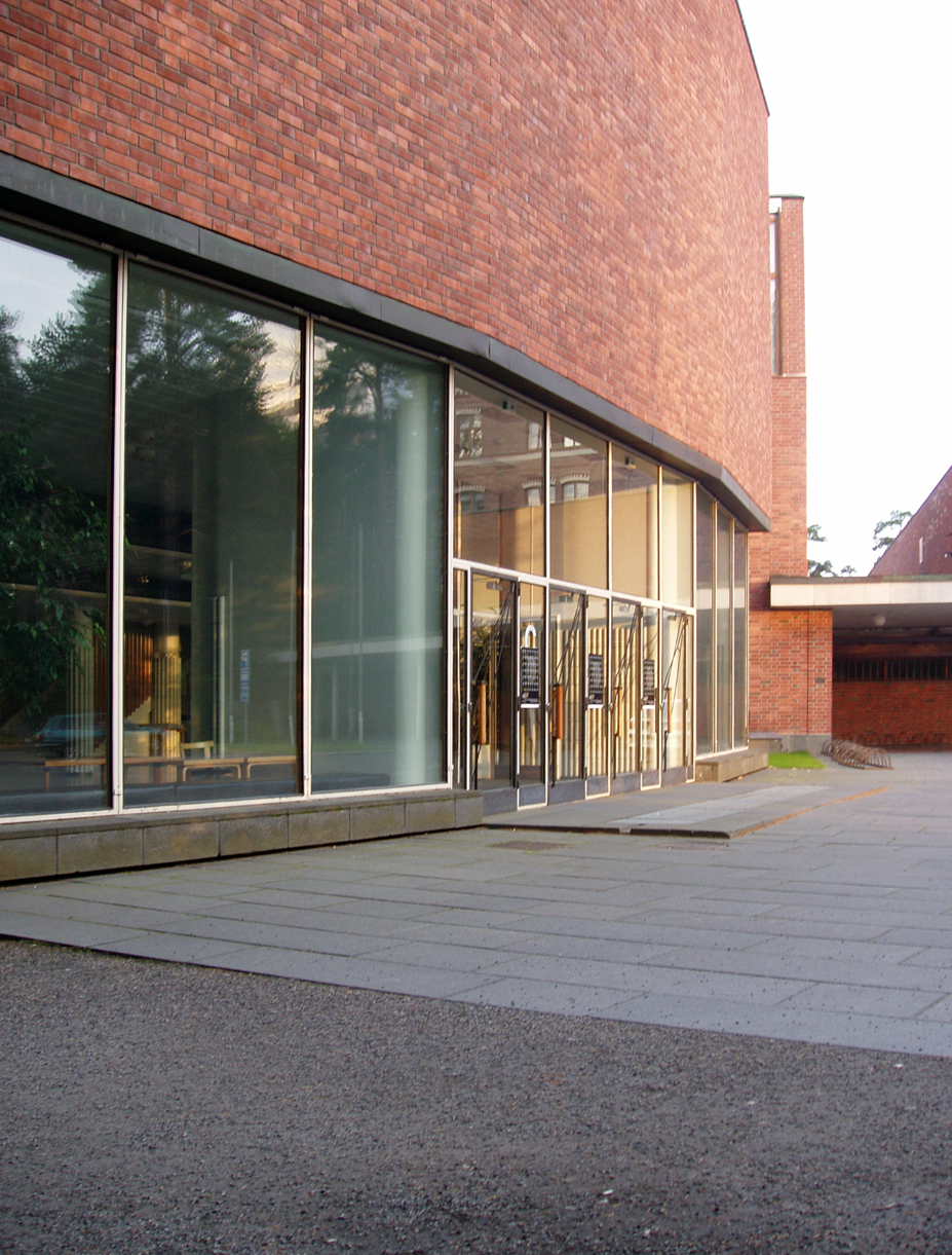 University of Jyväskylä, Aalto Campus, Main Auditorium